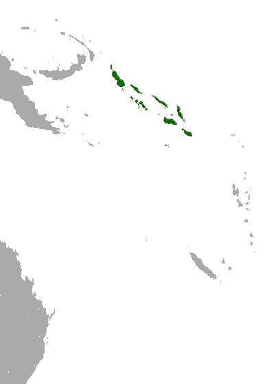 Solomon's Naked-backed Fruit Bat (Dobsonia inermis) range